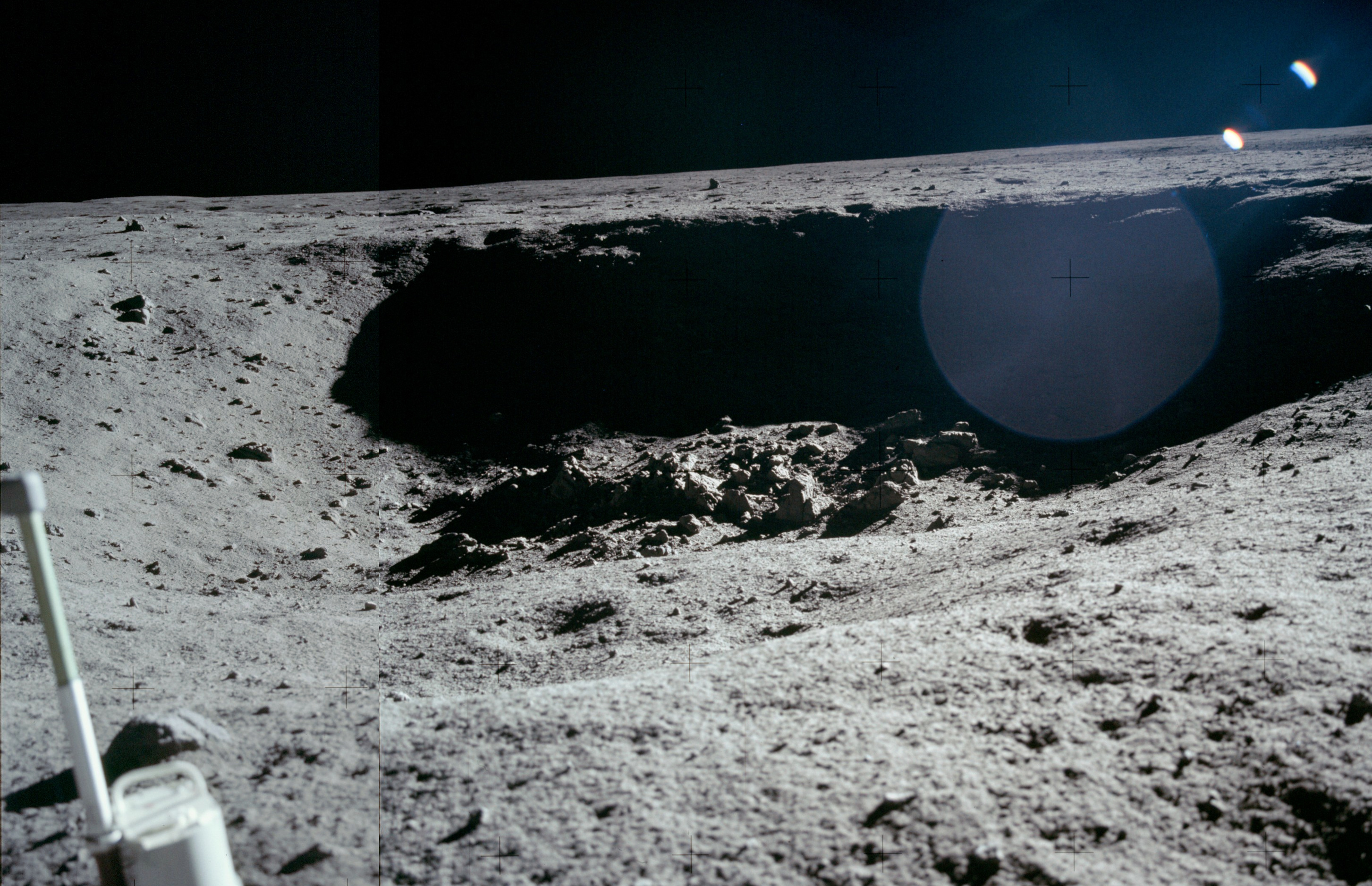 Composite image of Little West crater, the most distant site visited during the Apollo 11 moon landing. Made up of two images AS11-40-5954 and AS11-40-5955 (scaled down to 90%) which have been stitched and colour adjusted poorly.